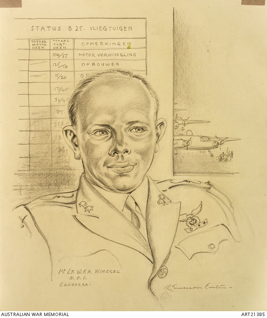 Drawing of Gus Winckel by R Emerson Curtis. "Australian War Memorial - Art 21 385". Text: "1st Lt. W.F.A. Winckel / N.E.I. / Canberra." Decoration: wings above two stars. On the wall a chart with a maintenance scheme: "Status B 25 vliegtuigen Totaal motoruren Totaal Vlgt uren Opmerkingen. 104/55 motorverwisseling 125/10 Opbouwen." Through the window two propellor airplanes with maintenance people are visible on an airfield. Apparently, the airplanes and the maintenance scheme concern the twin-engined medium bomber aircraft North American B-25 Mitchell NA-62.